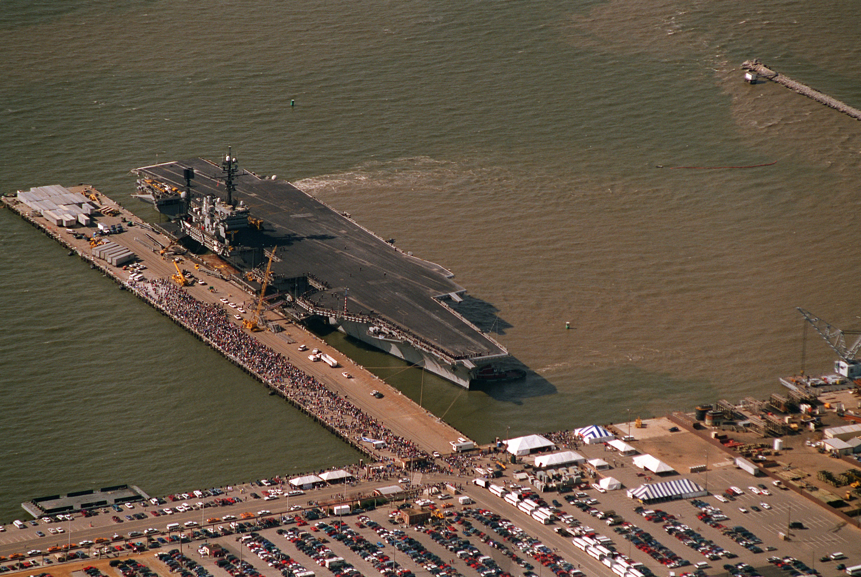 Aerial starboard bow view of the U.S. Navy aircraft carrier USS America (CV-66) completing mooring at pier 12 of Naval Station Norfolk, Virginia (USA), upon return from its final Mediterranean deployment on 28 January 1996. Friends, relatives and love ones wait on the pier for the crew to start disembarking.